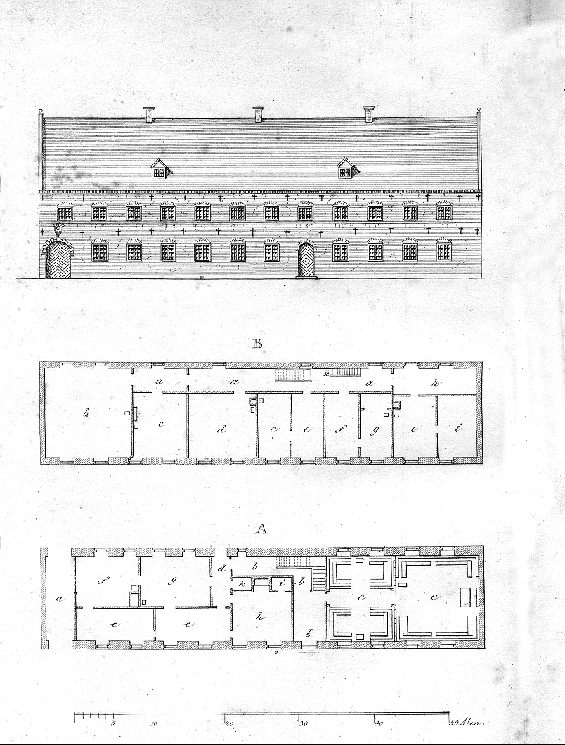 Rendering of Frederiksborg Latinskole as it looked from 1631 to 1806 in Hillerød, Denmark. Destroyed in a fire in 1845 and replaced by a new building in 1836